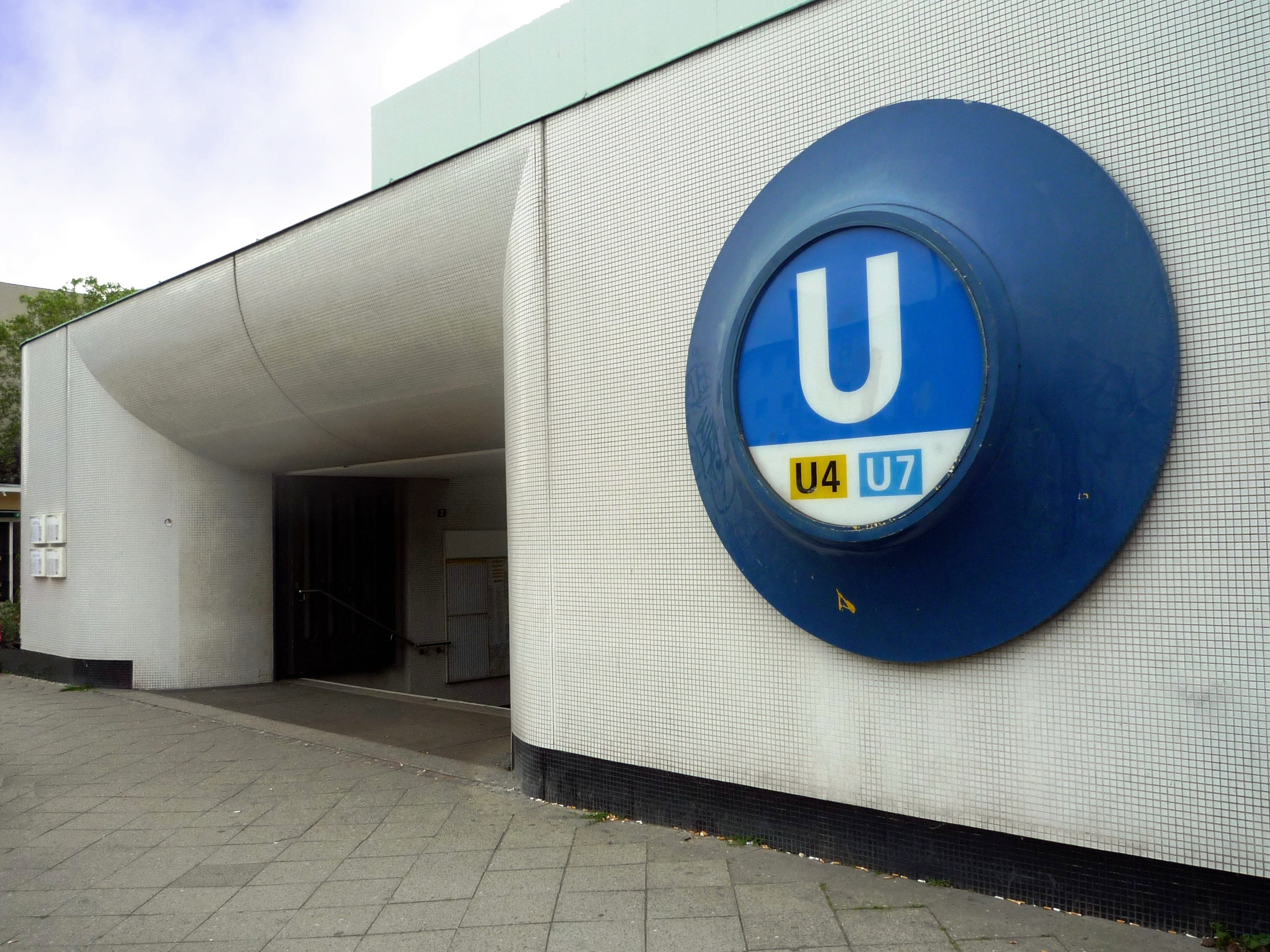 Berlin, subway-station Bayerischer Platz, entrance.